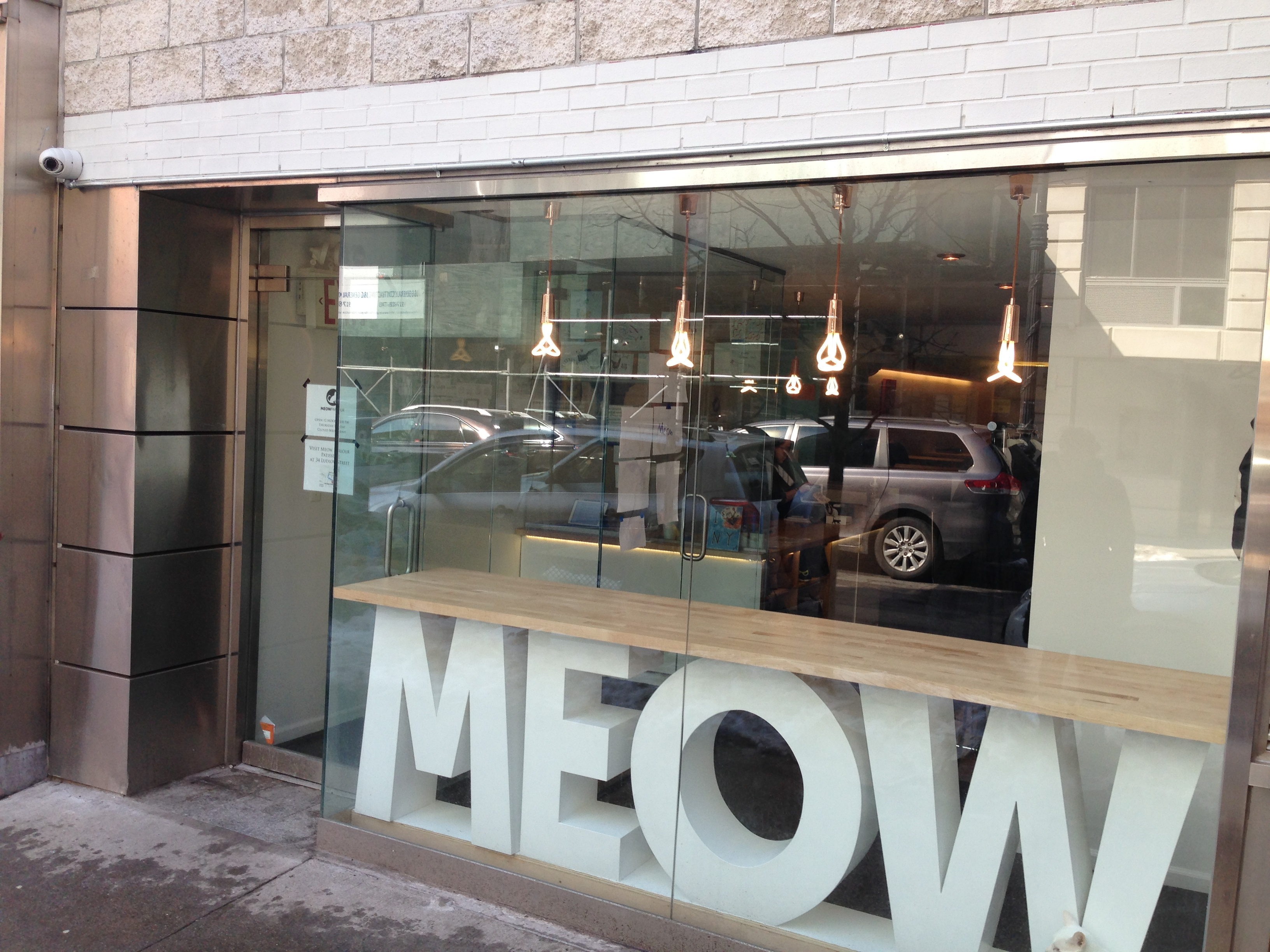 Cat petting store in lower east side nyc